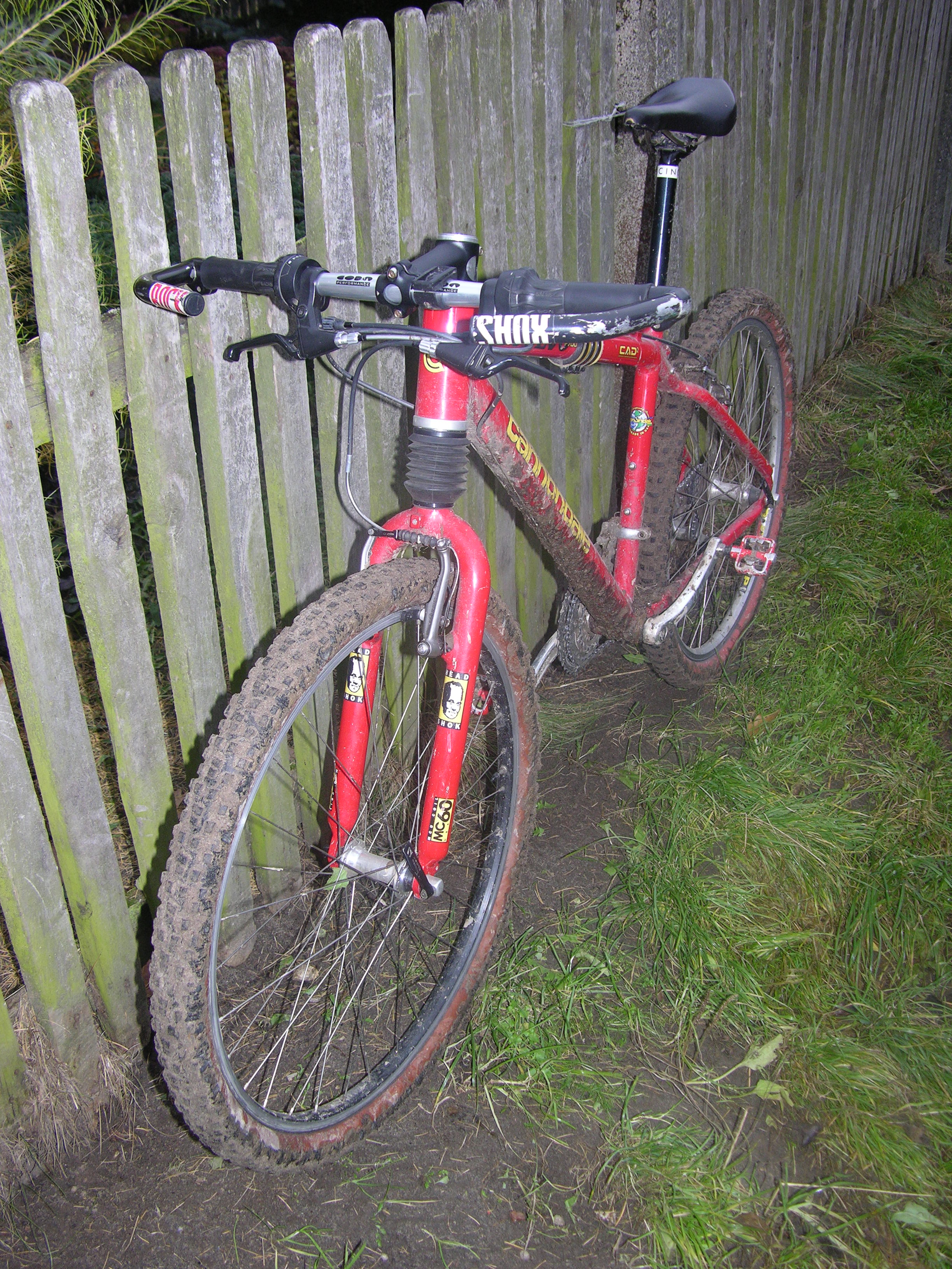 Cannondale F700 mountain bike with Headshok front suspension fork